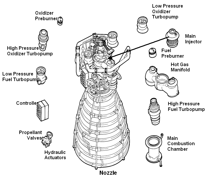 Illustration of a space shuttle main engine